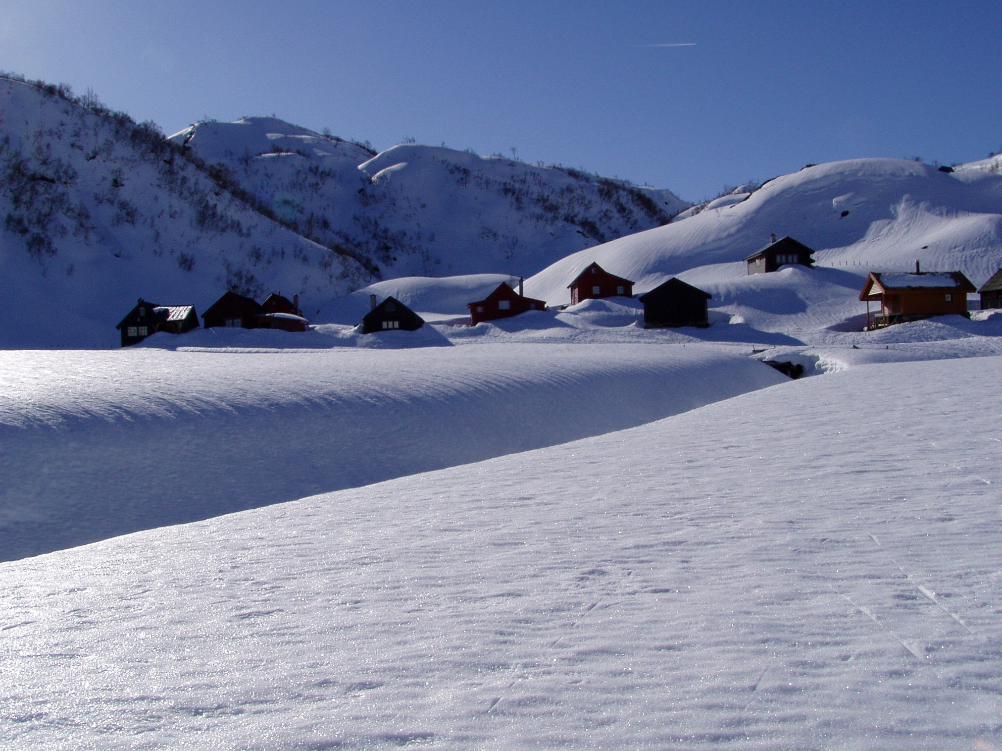 Mødalen close to Bergen skieldorado, Norway.